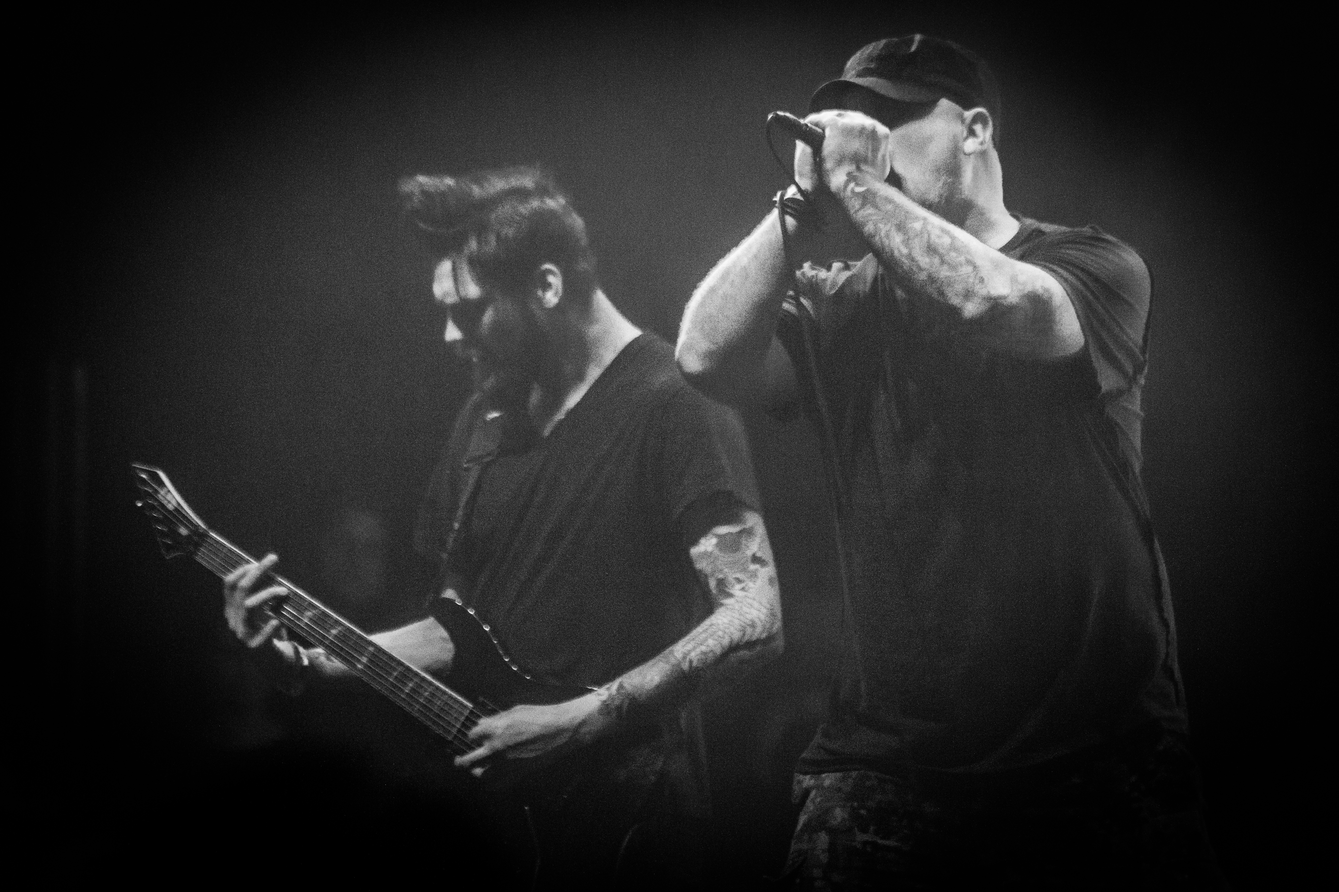 Integrity live at Roadburn Festival, Tilburg, April 2017